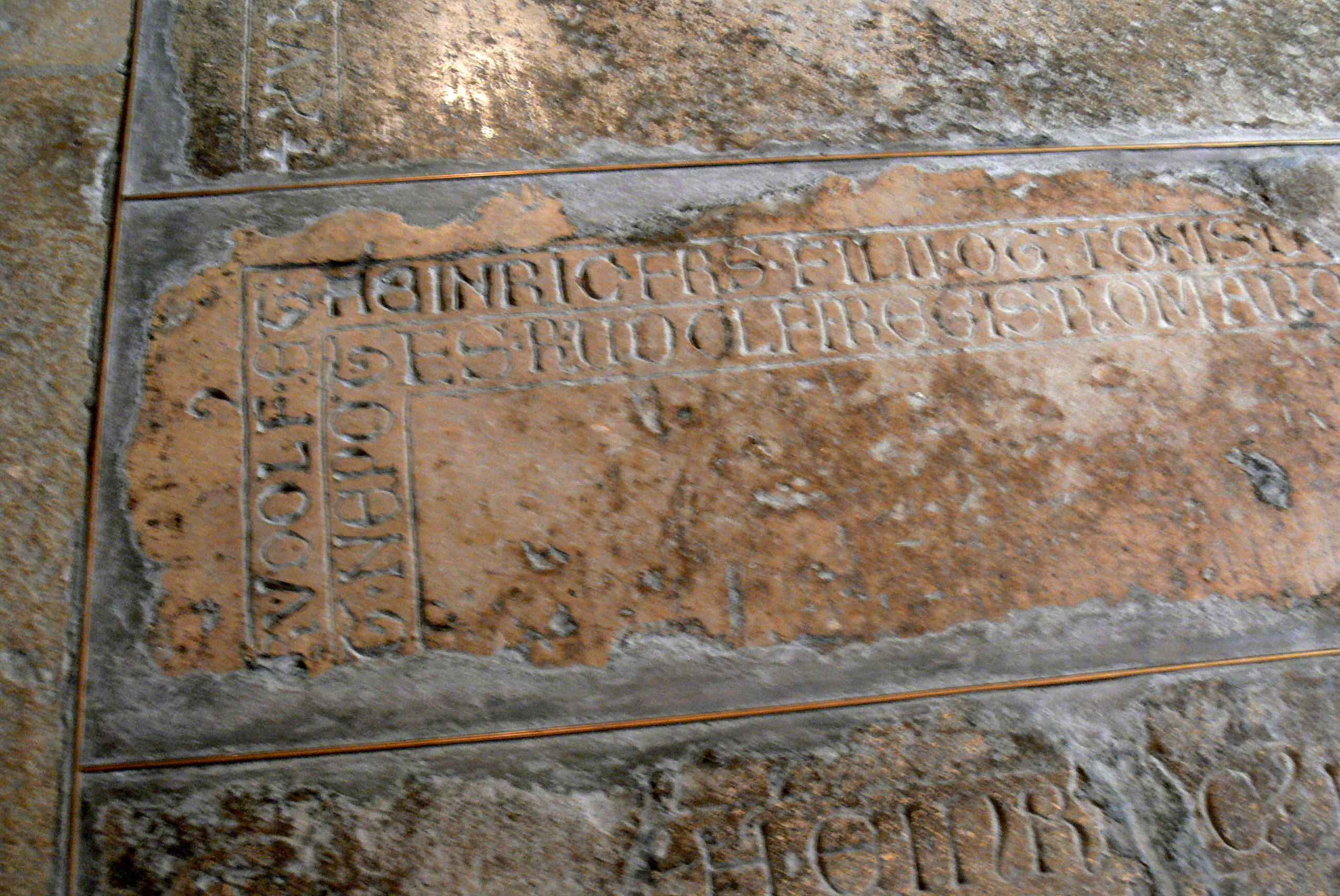 Heiligenkreuz abbey ( Lower Austria ). Chapter house: Tombstone of Henry I of Mödling.